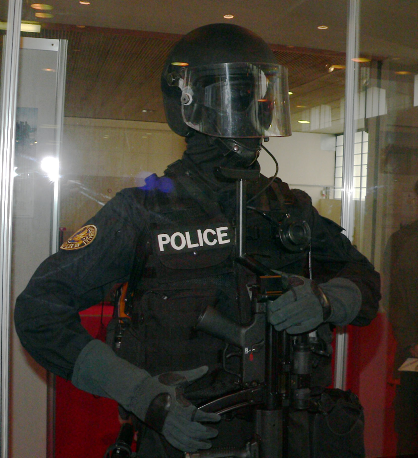 Policeman of the DARD, the special unit of the cantonal police of Vaud, in intervention gear